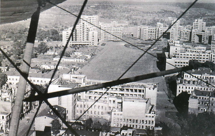 Dzerzhinsky Square (now Svoboda Square) in Kharkiv, Ukraine (1943)